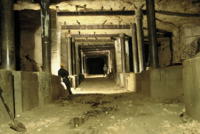 Spring Mine Box Hill Wilts MOD modified section